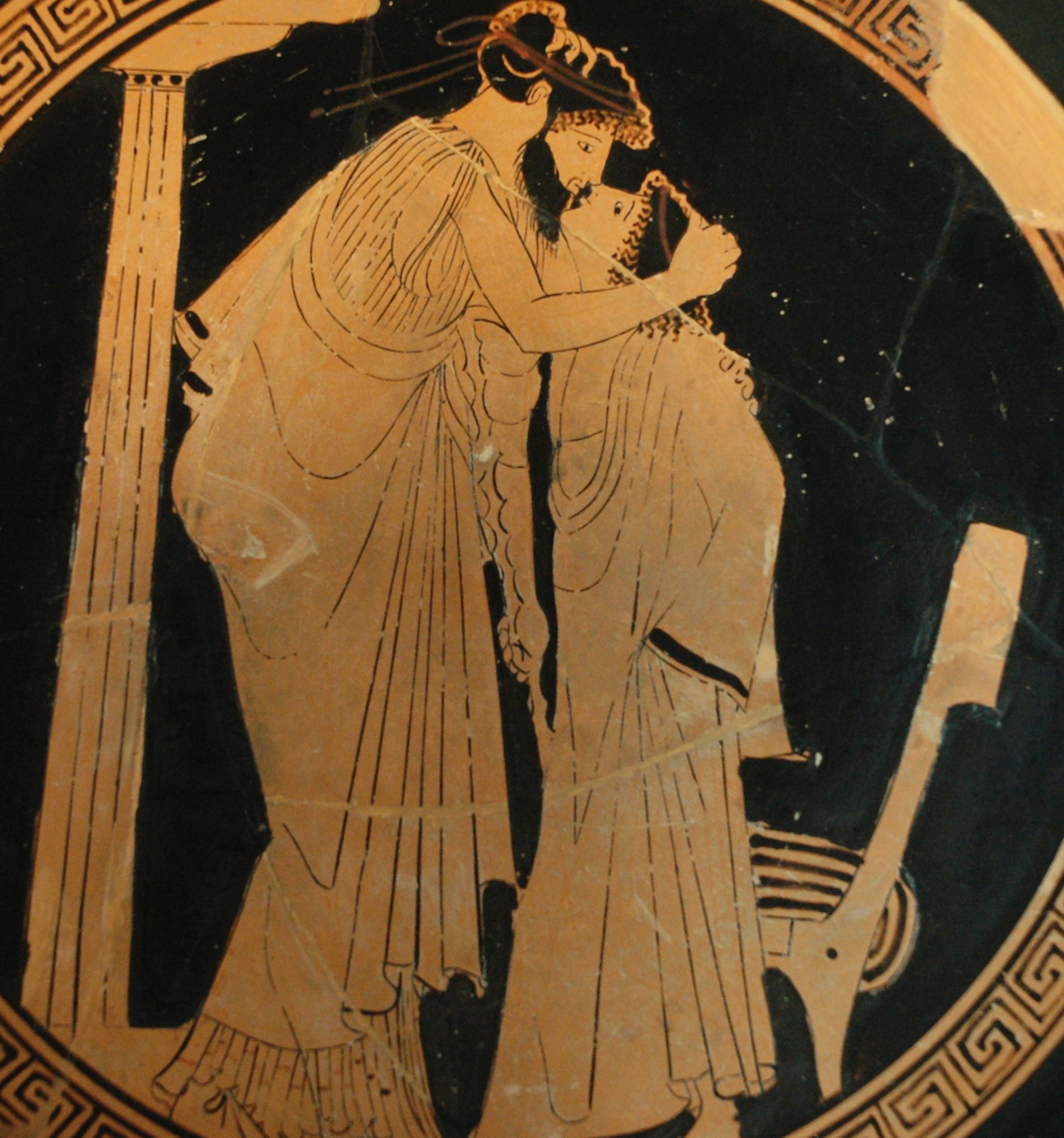 Erastes (lover) and eromenos (beloved) kissing. Detail from the tondo of a red-figure Attic cup, ca. 480 BC.